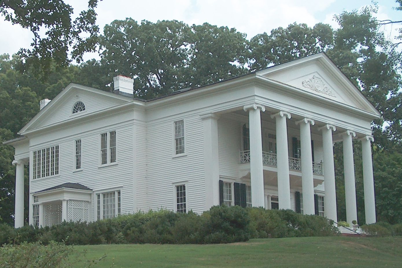 Oak Hill, a home of Berry College founder Martha Berry. Located in Rome, Georgia.